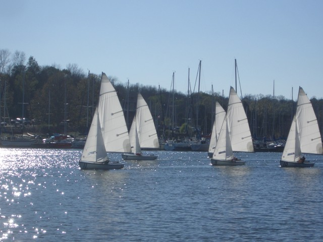 Photo of Vanderbilt University Sailing Club Homecoming Regatta at Percy Priest Lake